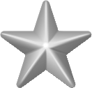 Illustration of a silver Award star ribbon device used for military decorations.